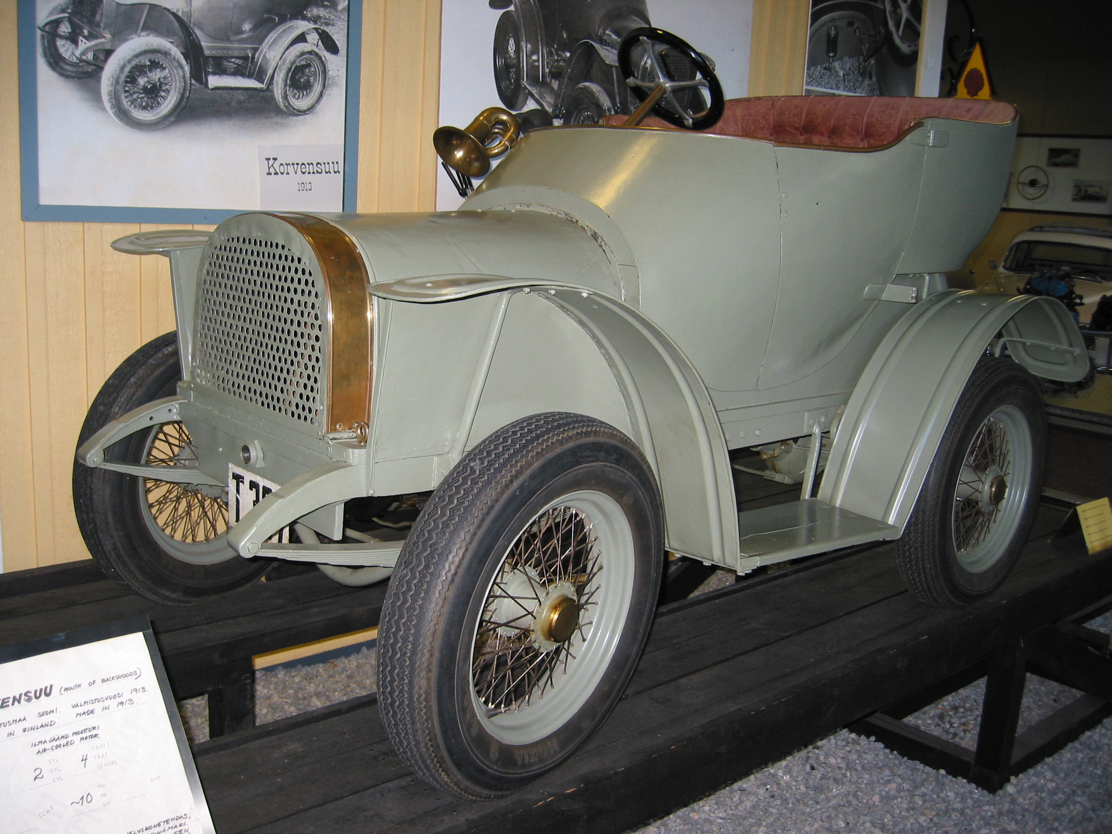 Korvensuu car from 1913